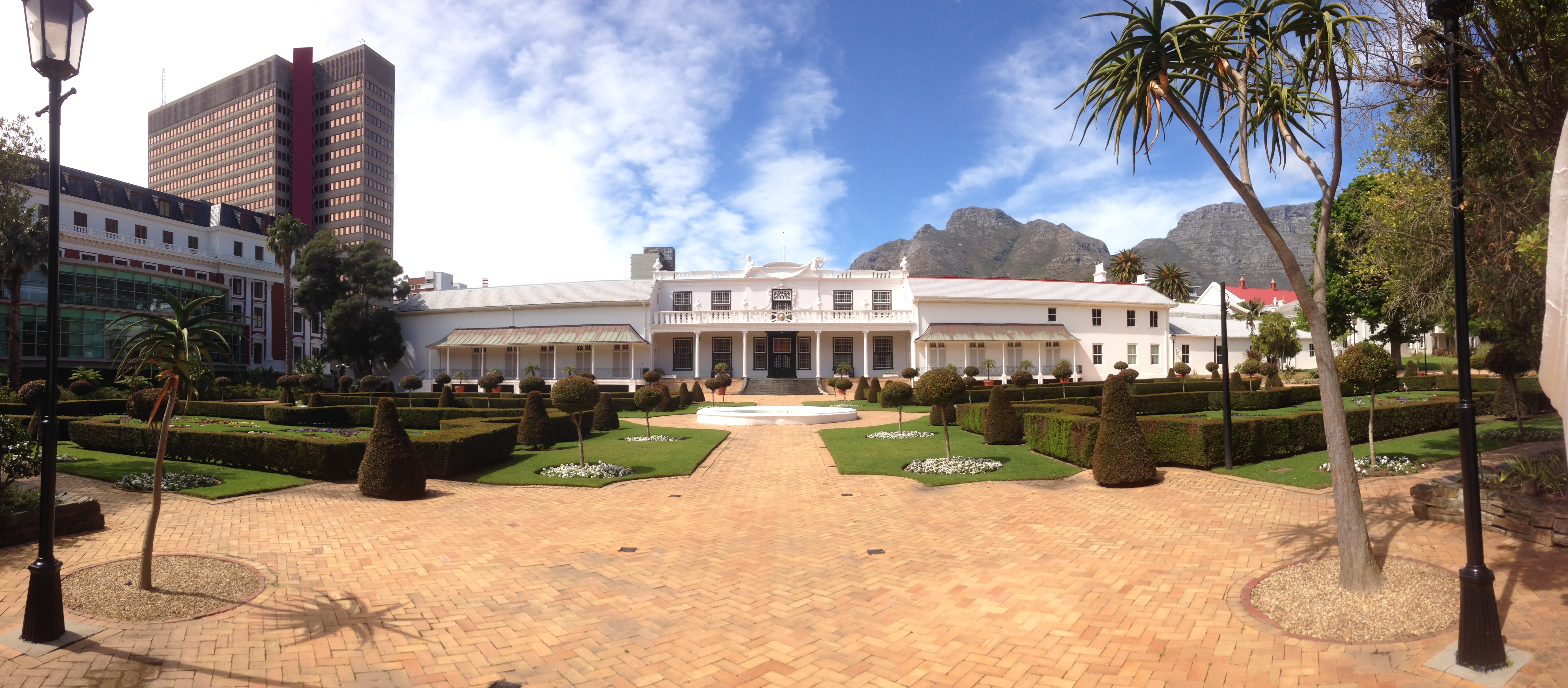 Tuynhuys, Stalplein, Cape Town Architectural style: CAPE DUTCH. Type of site: Government House Current use: Residential. . This media shows a South African Protected Site with SAHRA file reference 9/2/018/0235.